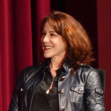 Damon Lindeloff, Mike Royce and Janet Tamaro speaking at panel after LA premiere of feature-length documentary, "Showrunners," in which they appear.